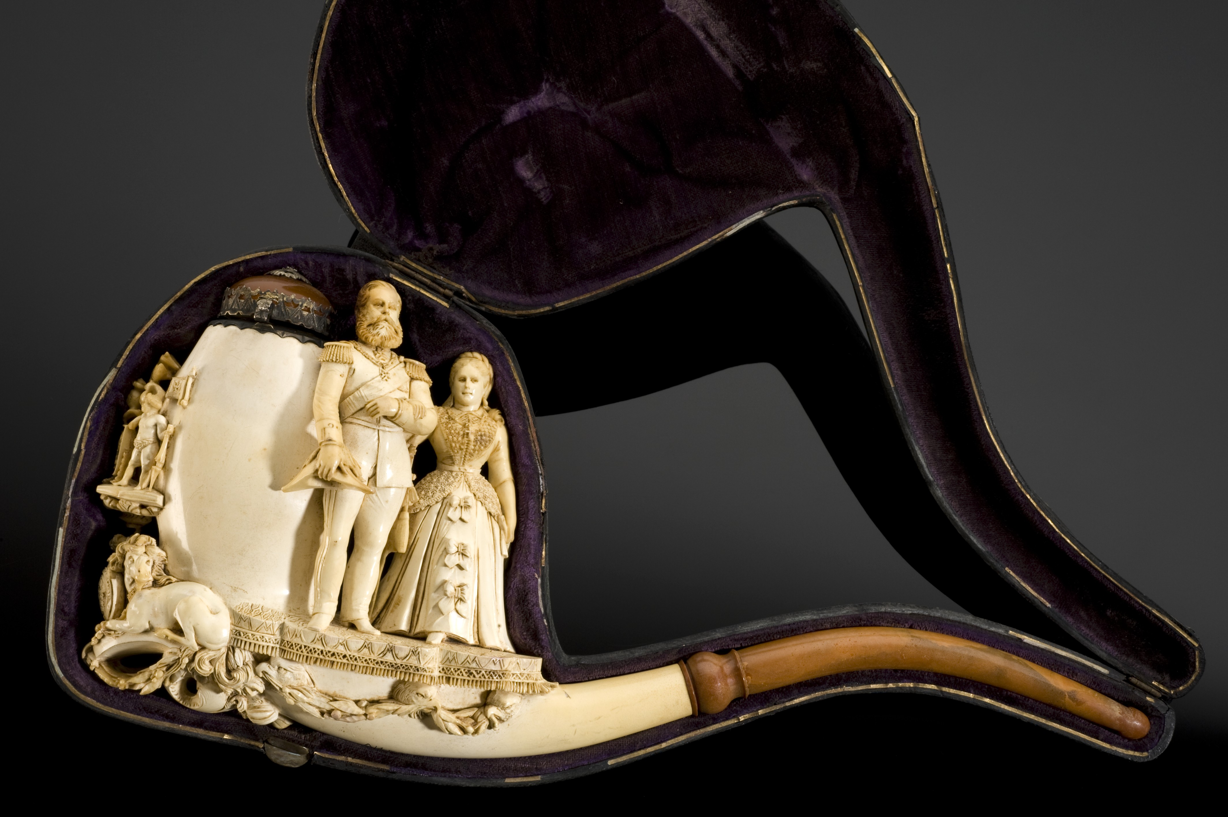 Meerschaum pipe with case, bowl carved with figures of Frederick (Emperor of Germany 1888) and his Consort, 1880-1890, Austria or England. Wellcome Images